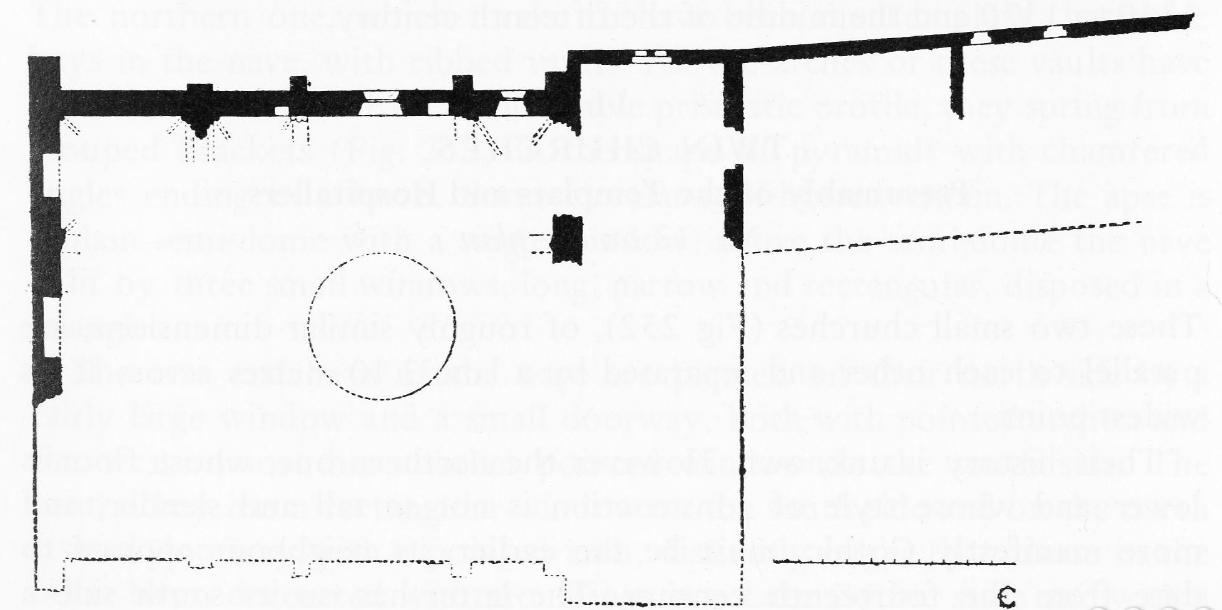 St. Anthony church and hospital, Famagusta